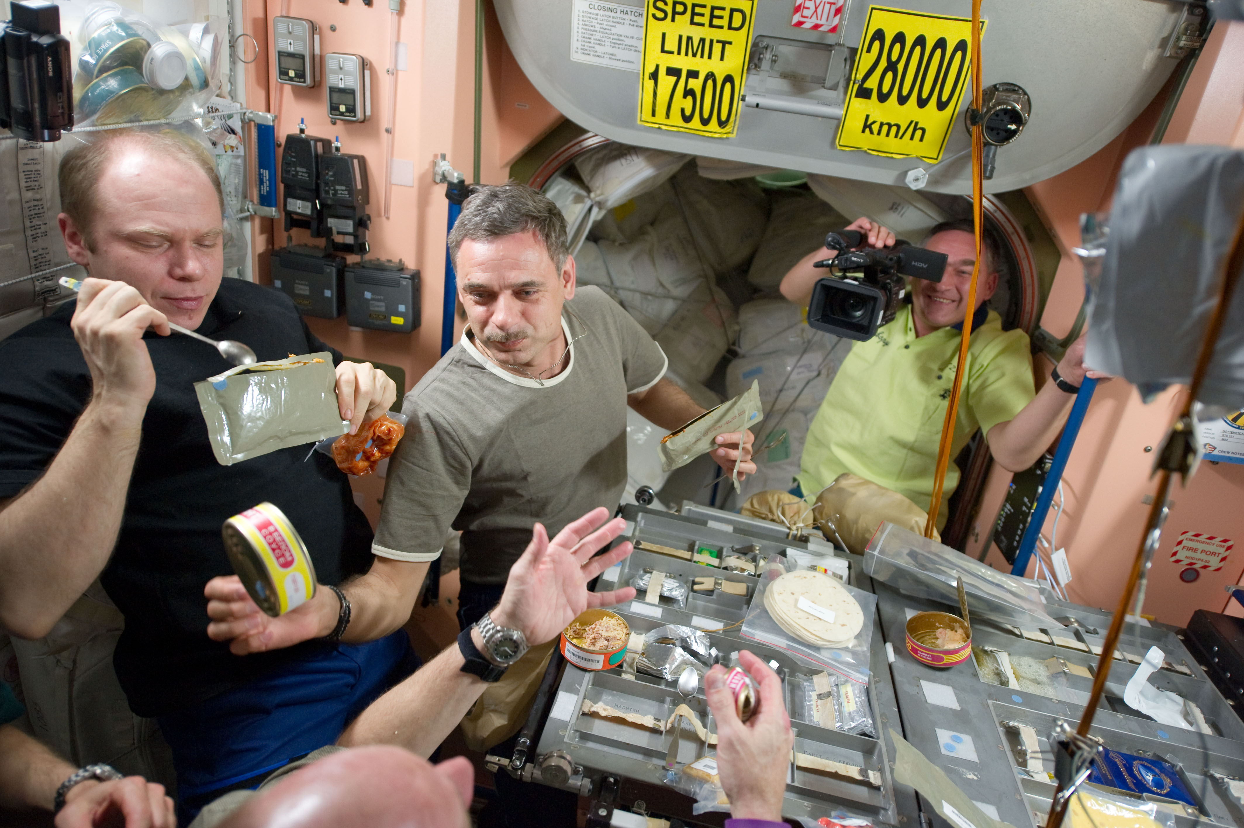 Three Expedition 23 crewmembers share a meal at the galley in the Unity node of the International Space Station. Pictured from the left are Russian cosmonauts Oleg Kotov, commander; Mikhail Kornienko, flight engineer, and Alexander Skvortsov, Soyuz commander and flight engineer. Skvortsov had interrupted his meal to document the station crew members and the visiting Discovery astronauts (out of frame) during the meal. Thirteen cosmonauts and astronauts will continue their joint activities over the next several days aboard the orbital complex.